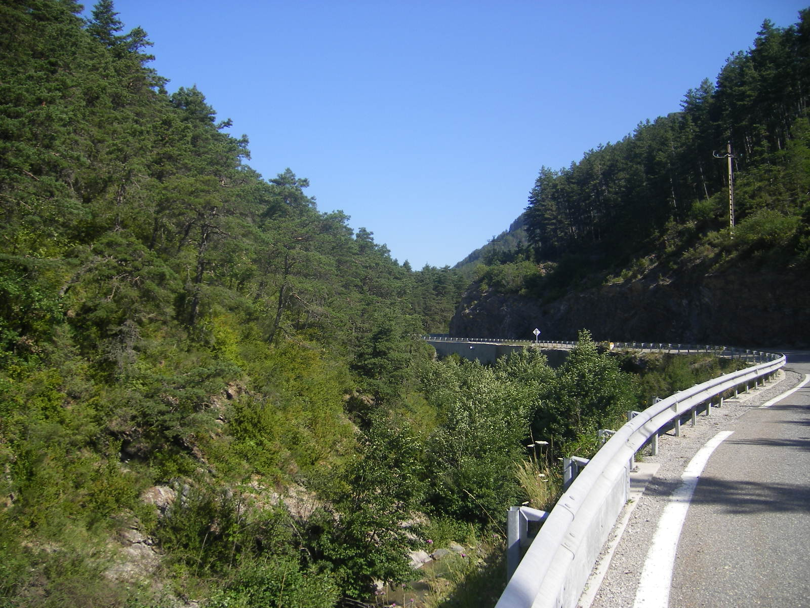 Going to Labouret Pass from the Bès Valley